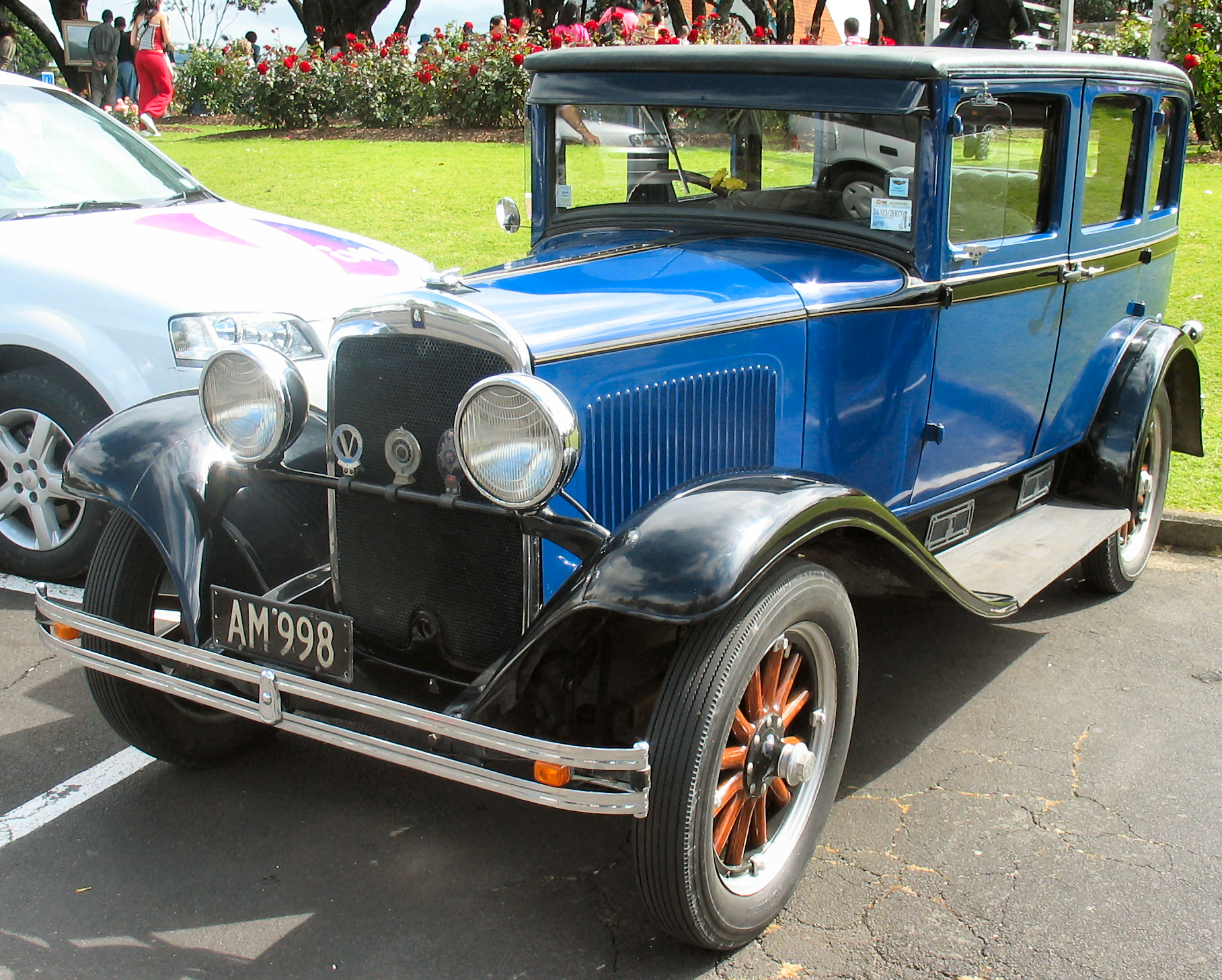 1928 Plymouth Model Q, in Auckland New Zealand.